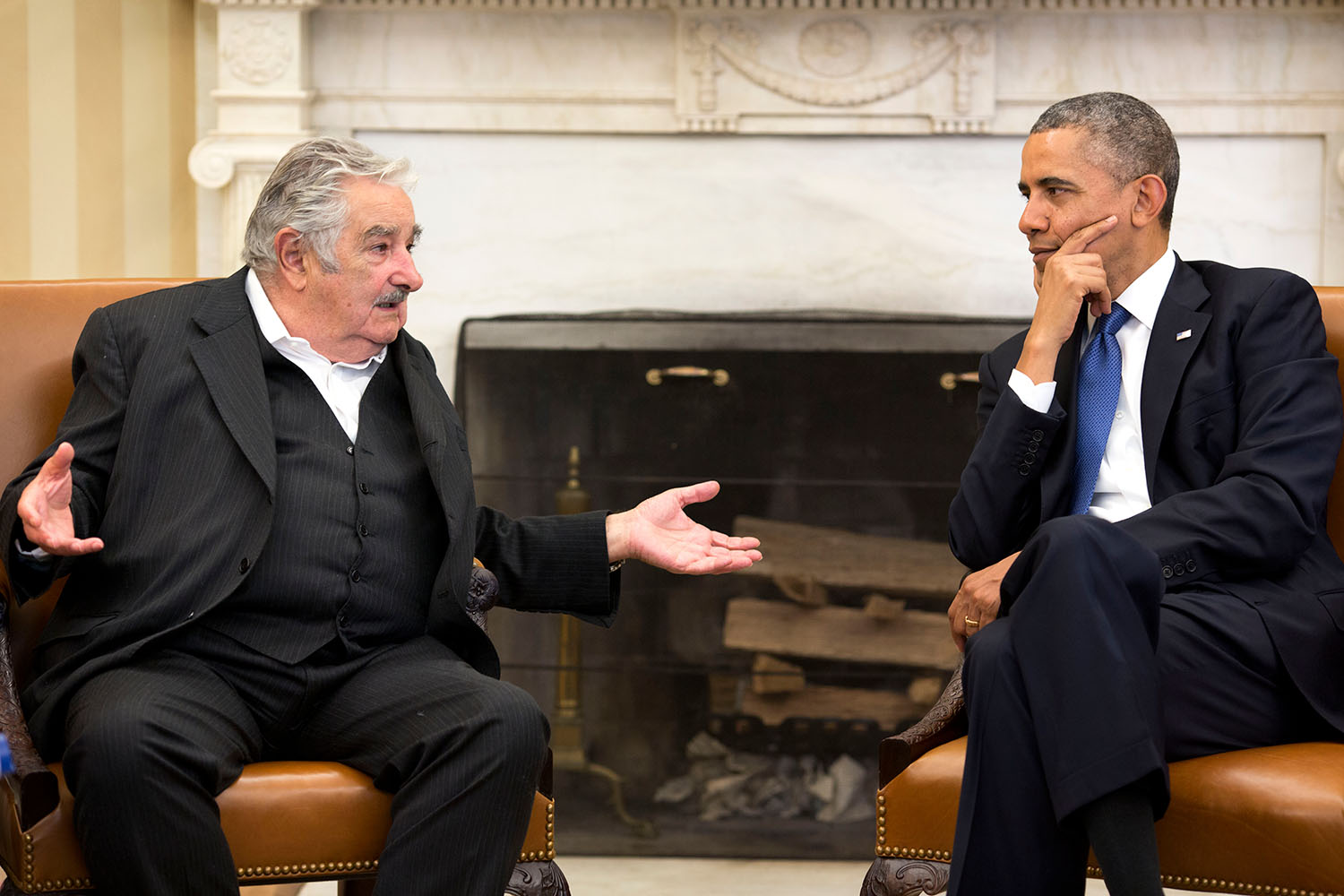 President Barack Obama meets with President José Mujica Cordano of Uruguay in the Oval Office, May 12, 2014.